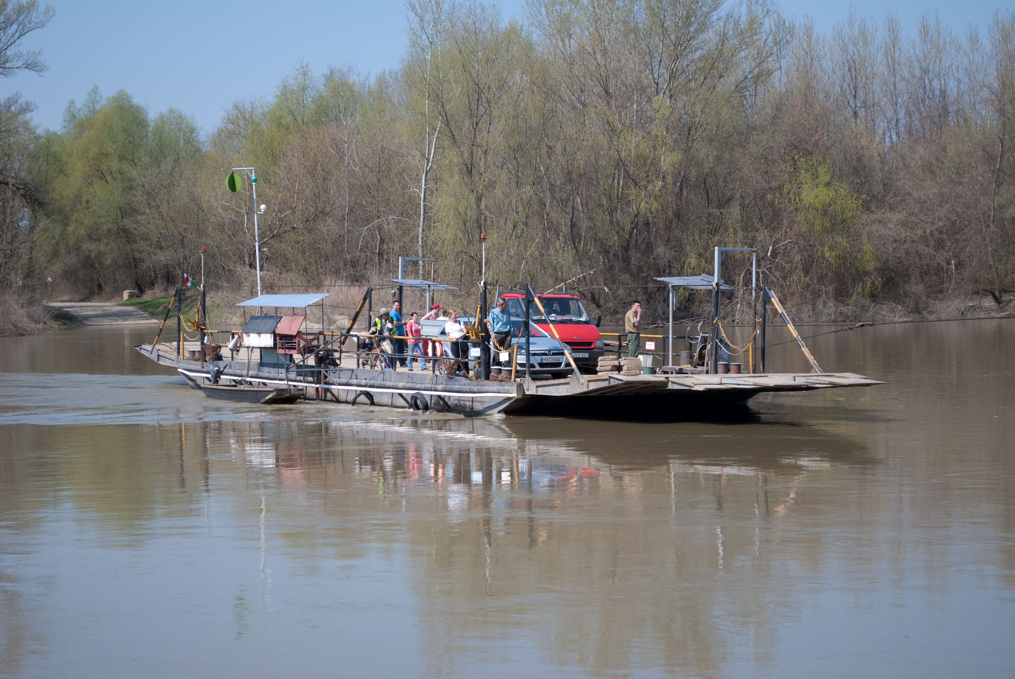 The ferry coming from Baks to Mindszent